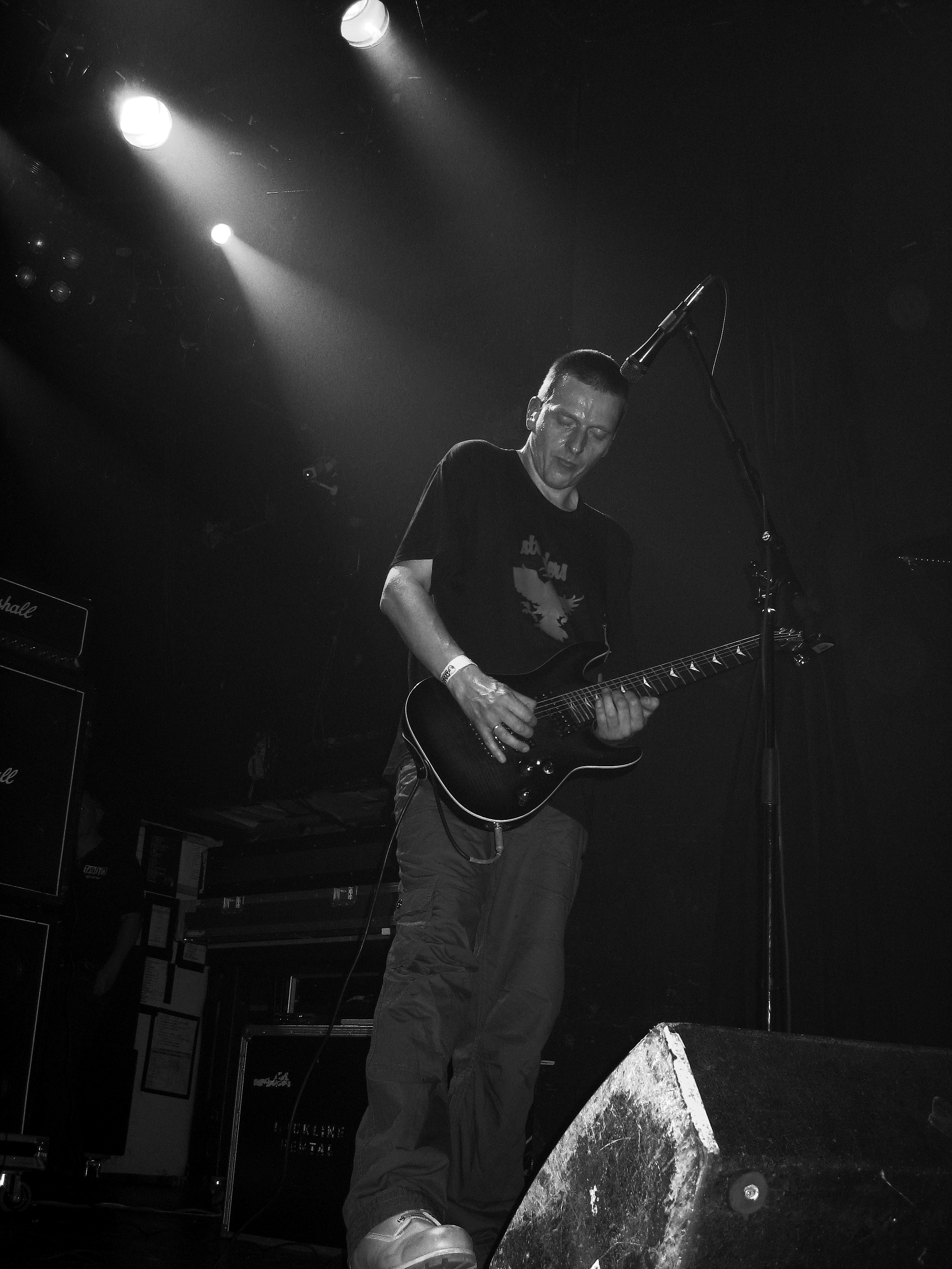 Godflesh playing in Tavastia, Helsinki, Finland, September 24th 2011.